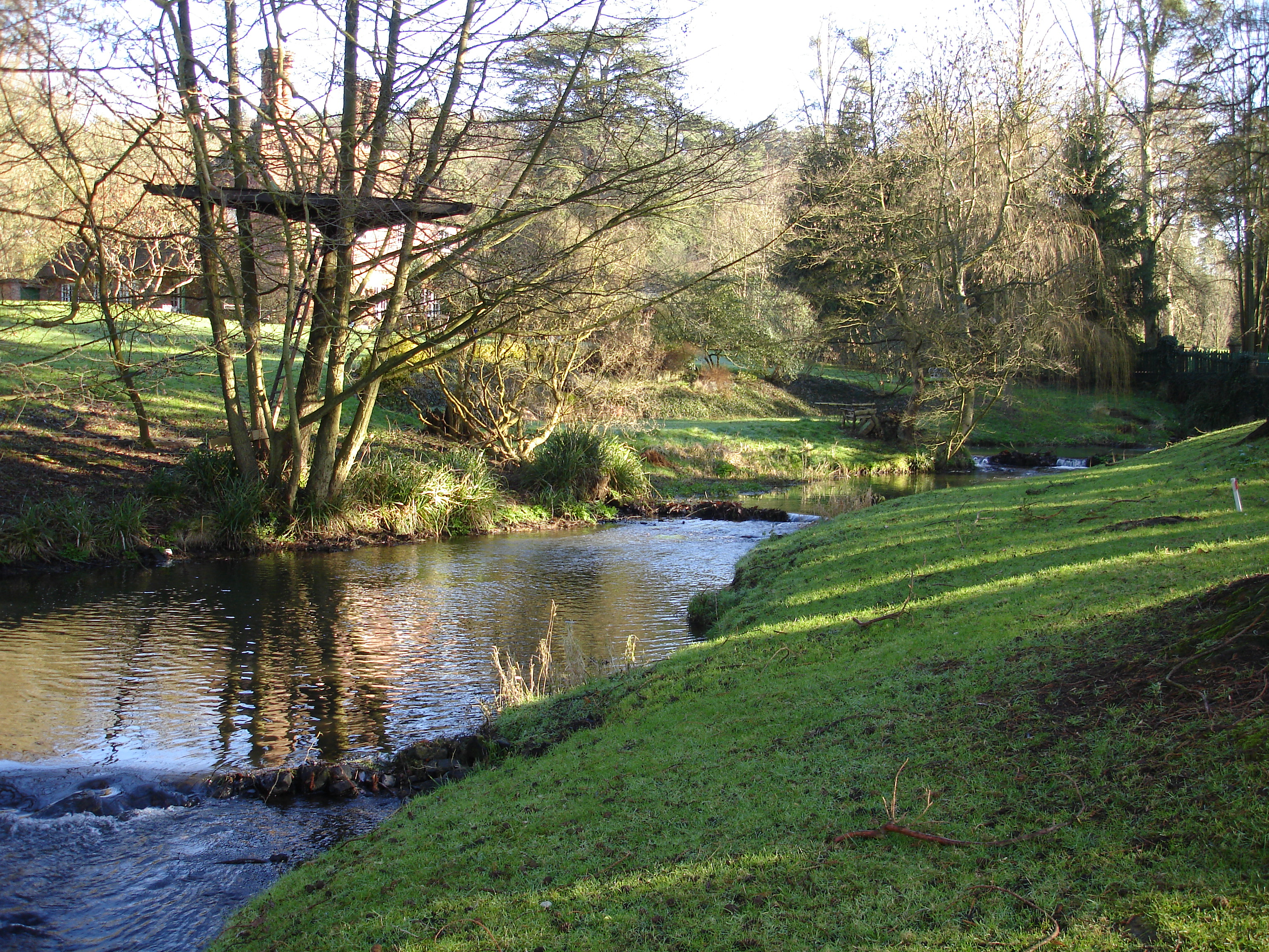 River Tillingbourne running through the Albury estate. Suzanne Knights, my photo, December 2007